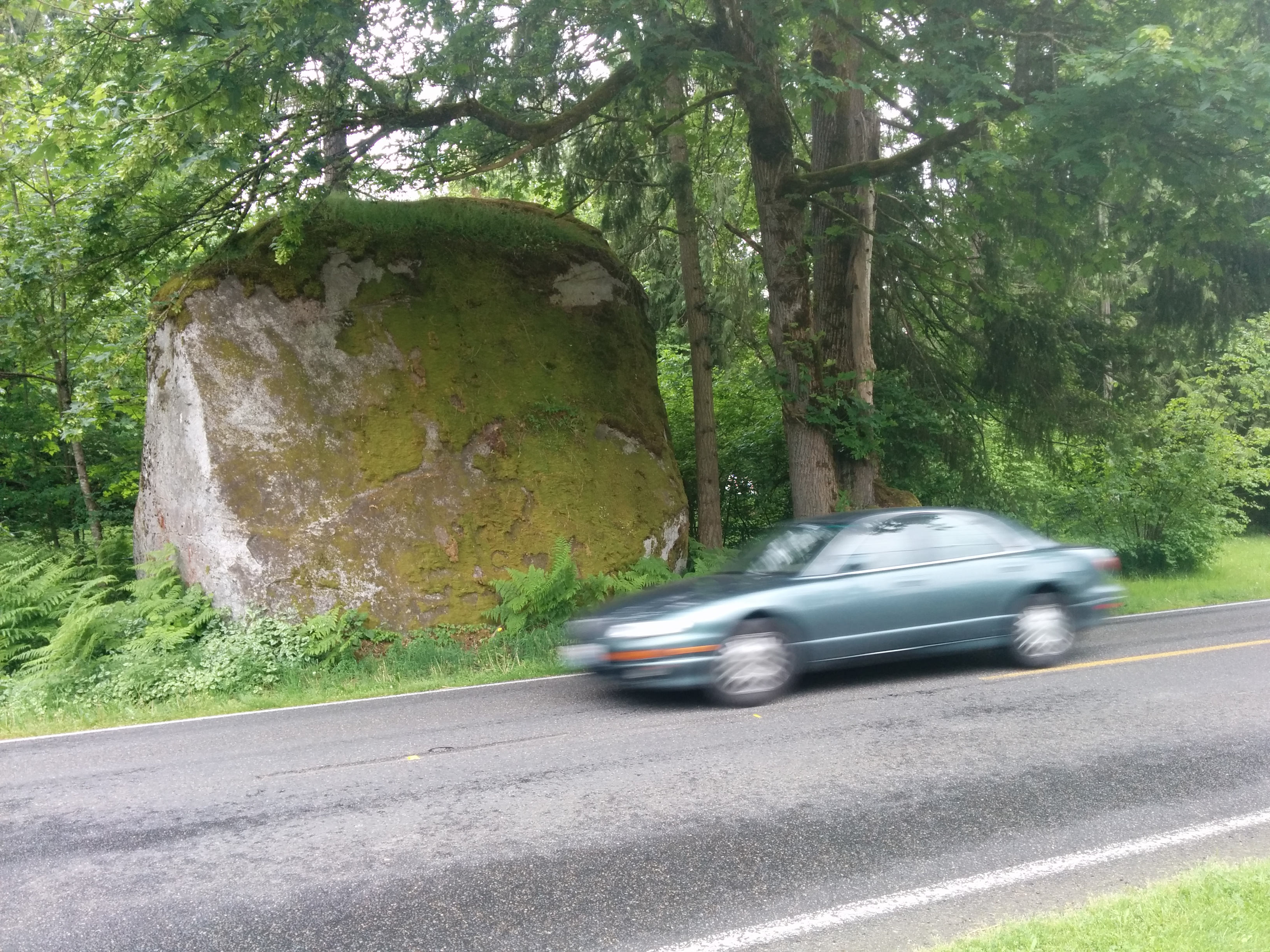 A glacial erratic about 15 feet tall in Thurston County, Washington. North face.